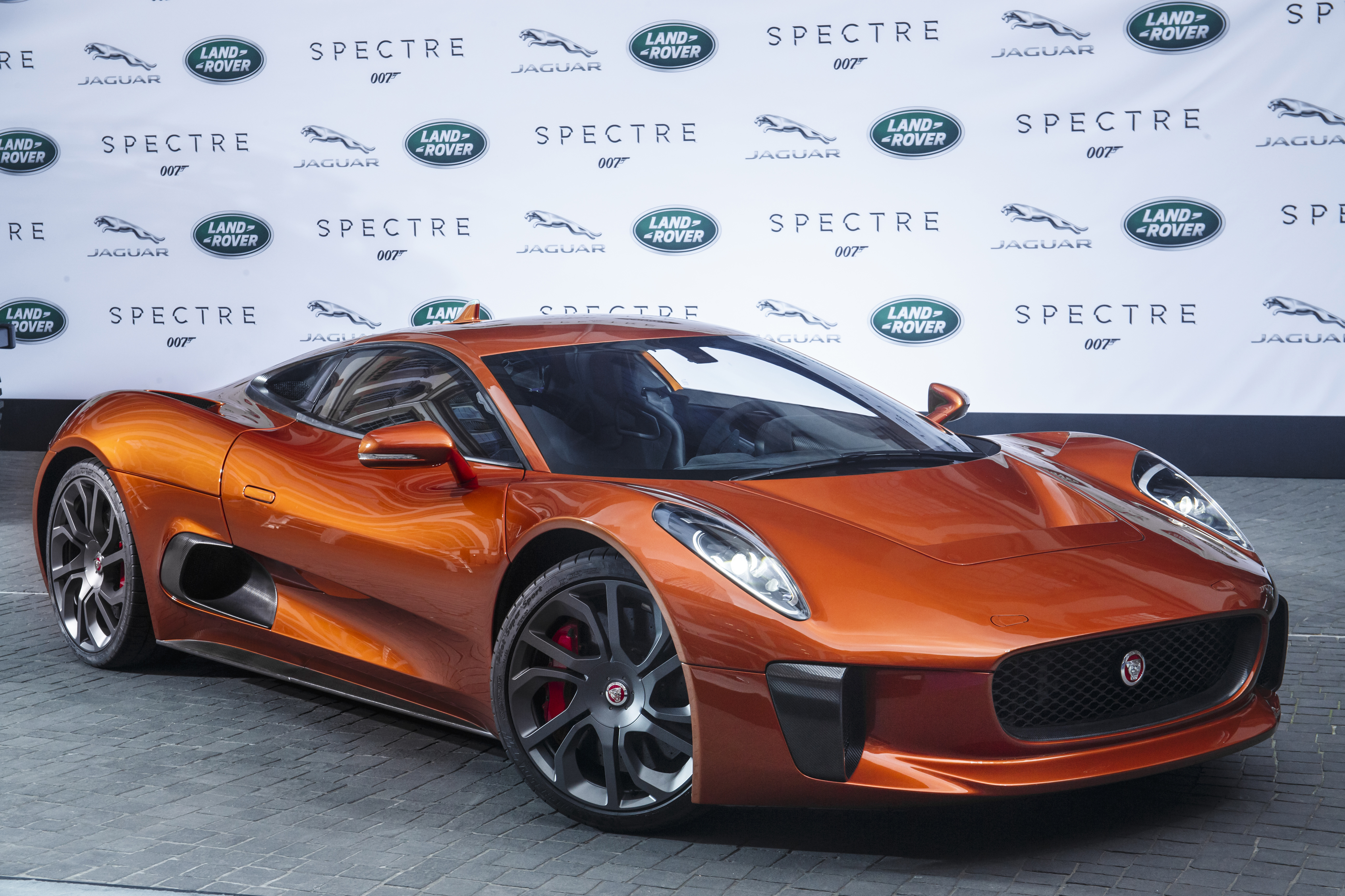 Jaguar Land Rover celebrated their vehicles appearing in the new Bond adventure, SPECTRE. Cars, including the Jaguar C-X75, Range Rover Sport SVR and the iconic Land Rover Defender, stole the show as they were unveiled in public for the first time at the palatial Thurn und Taxis in Frankfurt.